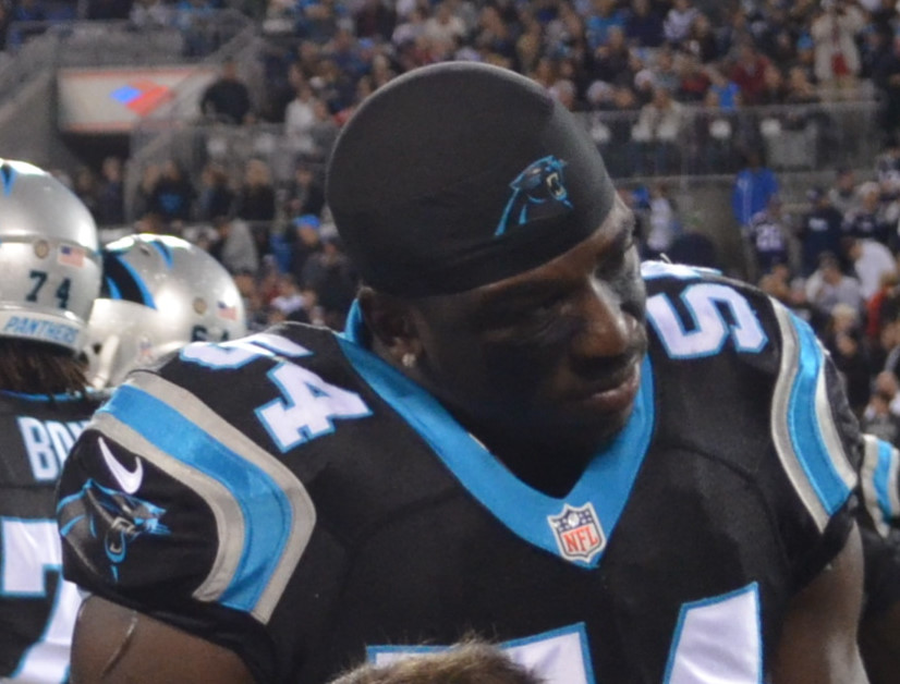 Carolina Panthers linebacker, Jason Williams, in a game against the New England Patriots on November 18, 2013.